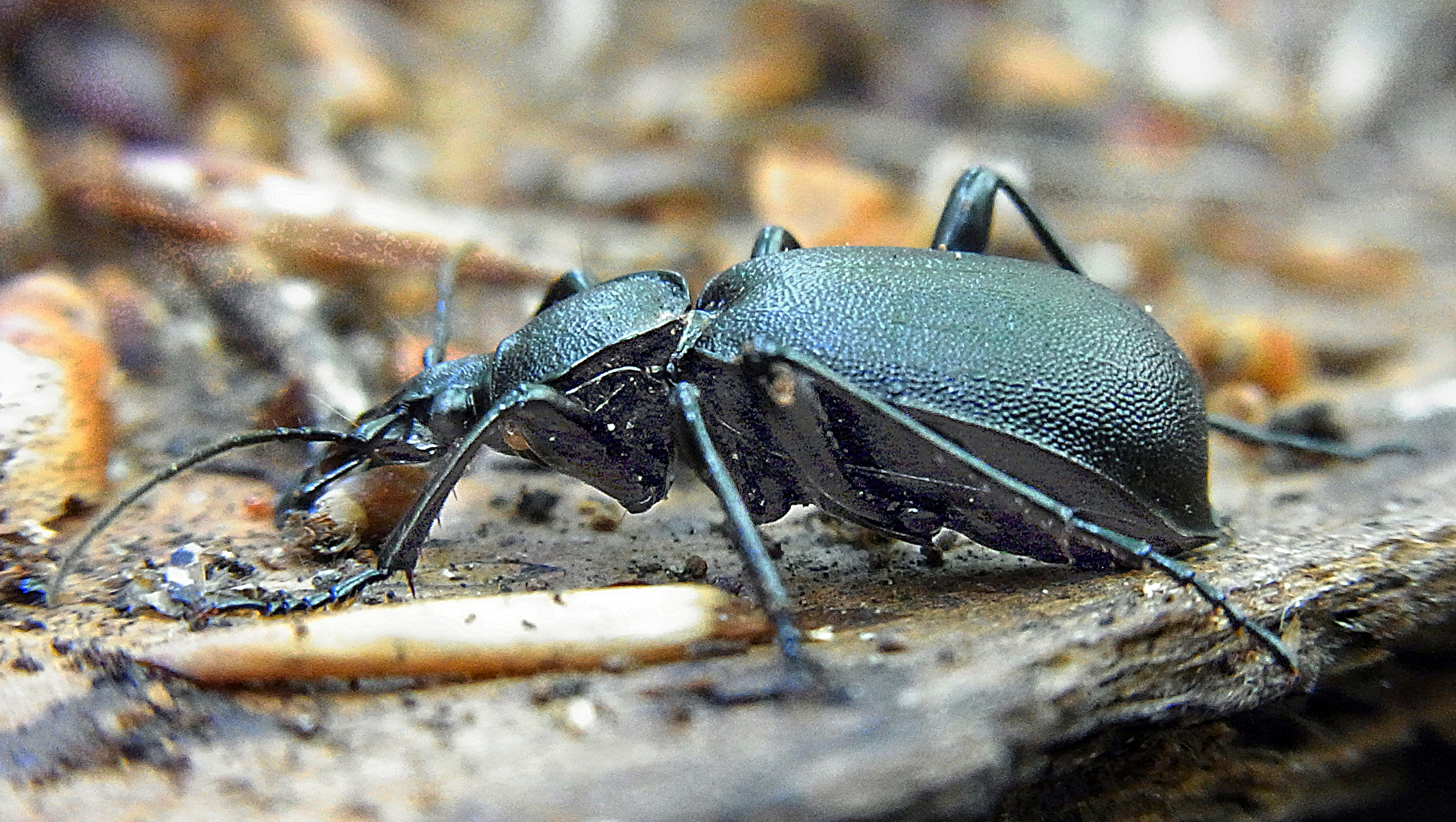 Cychrus caraboides from Hungary, Bück-mountains, near Répáshuta